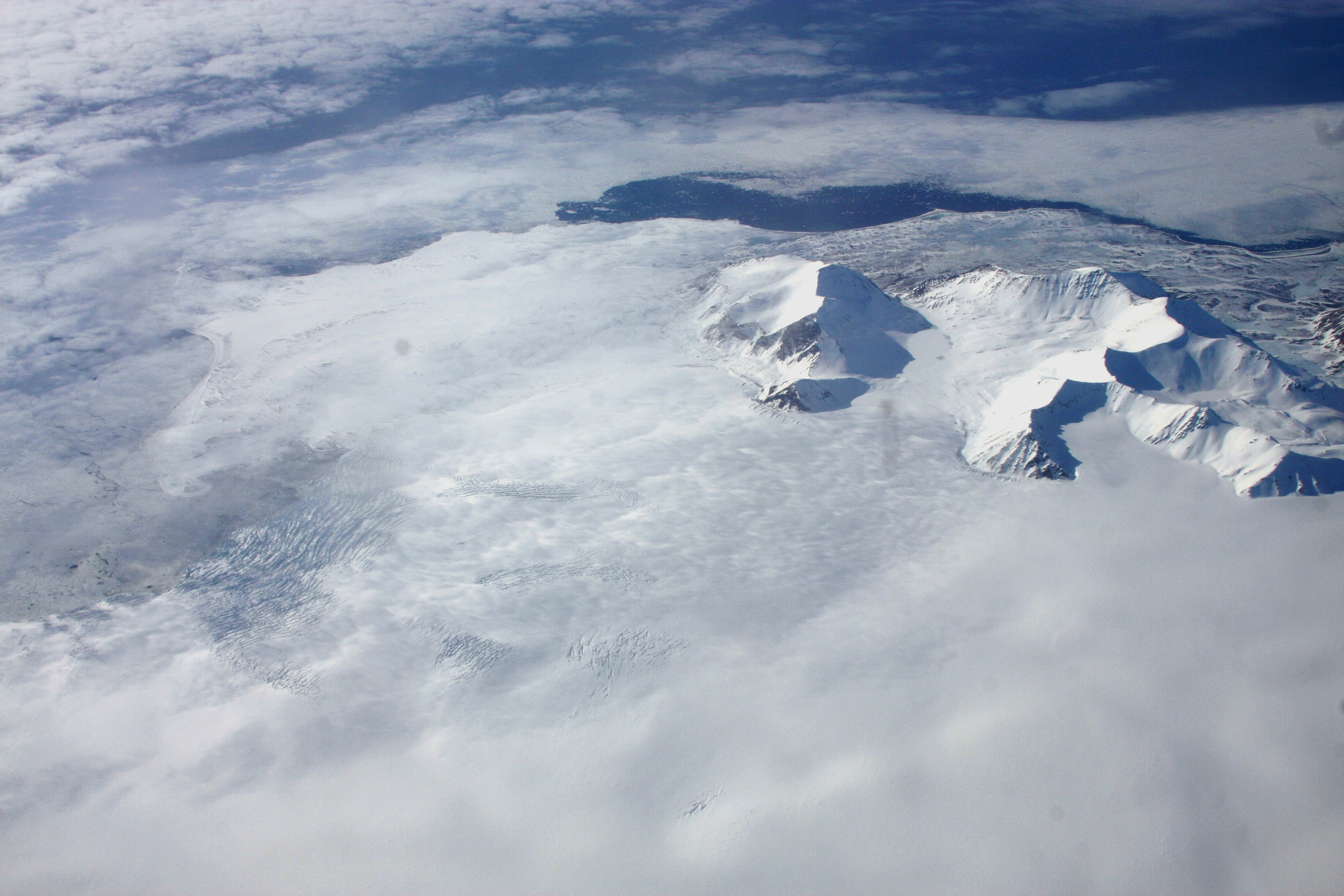 Cape Borthen (Kapp Borthen) to the left with Isfjellbukta, on Wedel Jarlsberg Land, southwestern Spitsbergen. Late April, 2011. . The glacier is Vestre Torellbreen